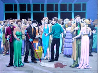 "Reception" a painting by Guy Colwell, acrylic on canvas, 30 x 38 1/2